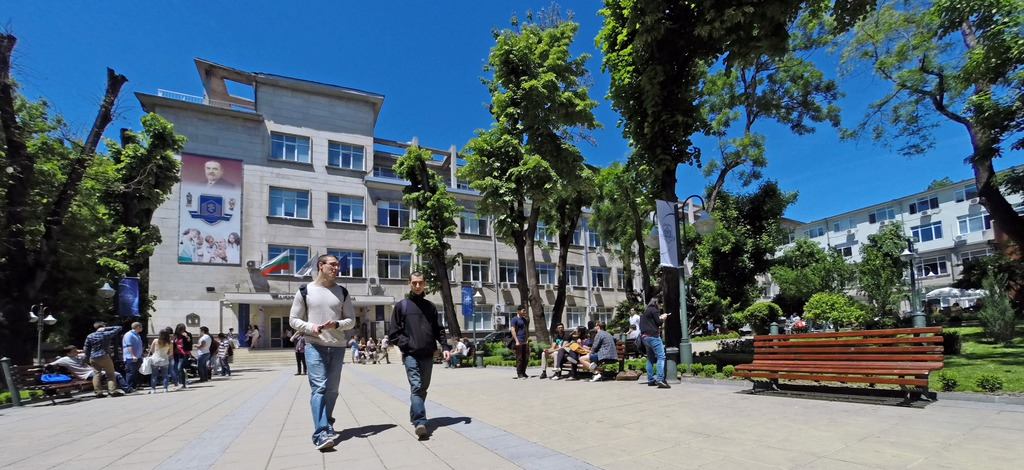 Medical University of Varna